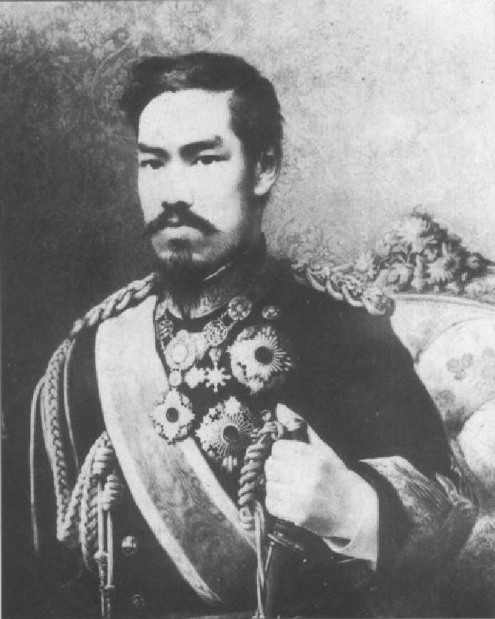 Conté portrait of the Emperor Meiji, drawn by Chiossone during his employment by the Imperial Printing Bureau: Chiossone was ordered to covertly sketch the emperor and create the final portrait from those sketches. The completed work was then photographed and distributed under the tacit approval of the Emperor to foreign governments and Japanese schools. The realism of the drawing was such that many mistook the portrait for an actual photograph.